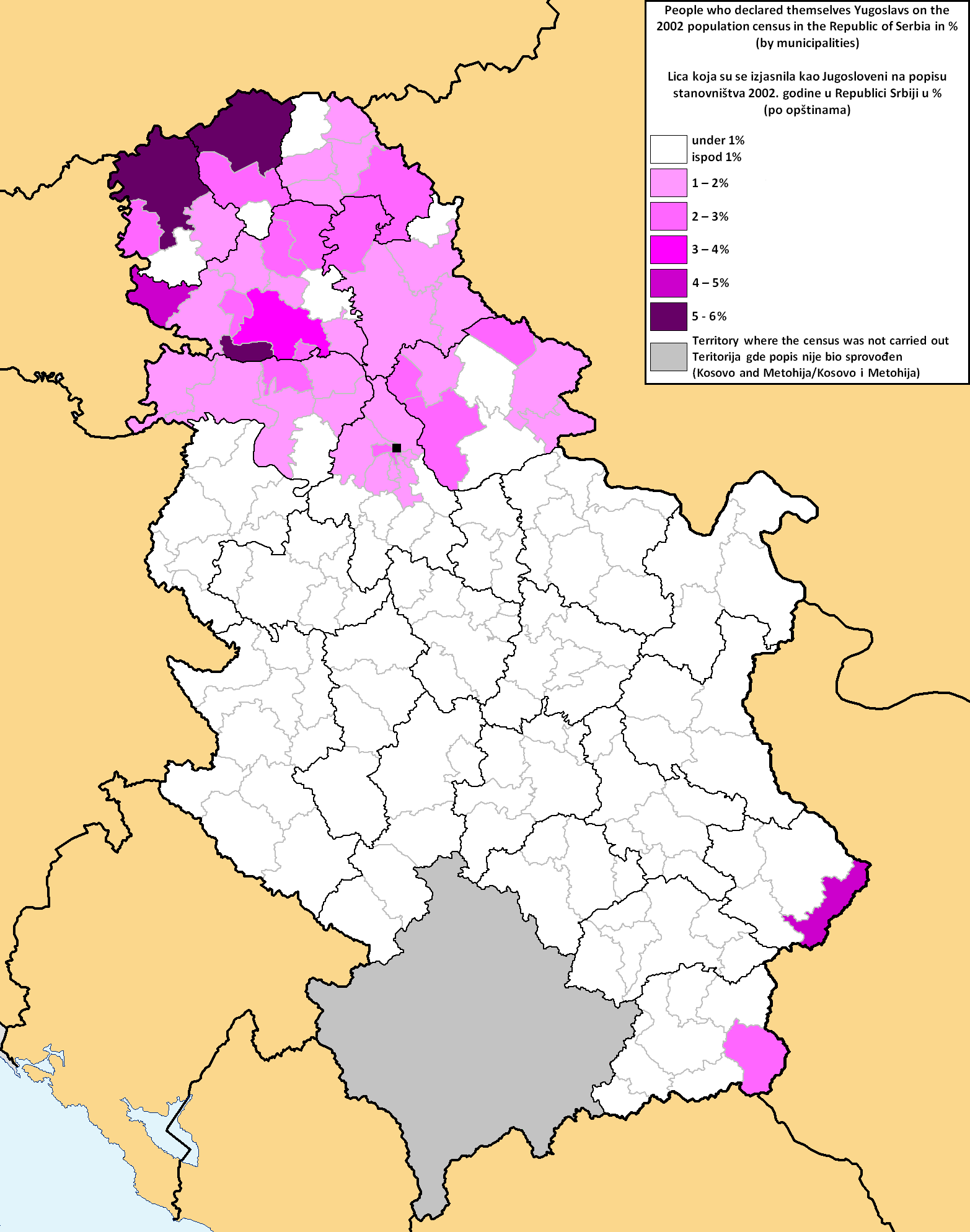 People that declared themselves as Yugoslavs on the 2002 population census in the Republic of Serbia